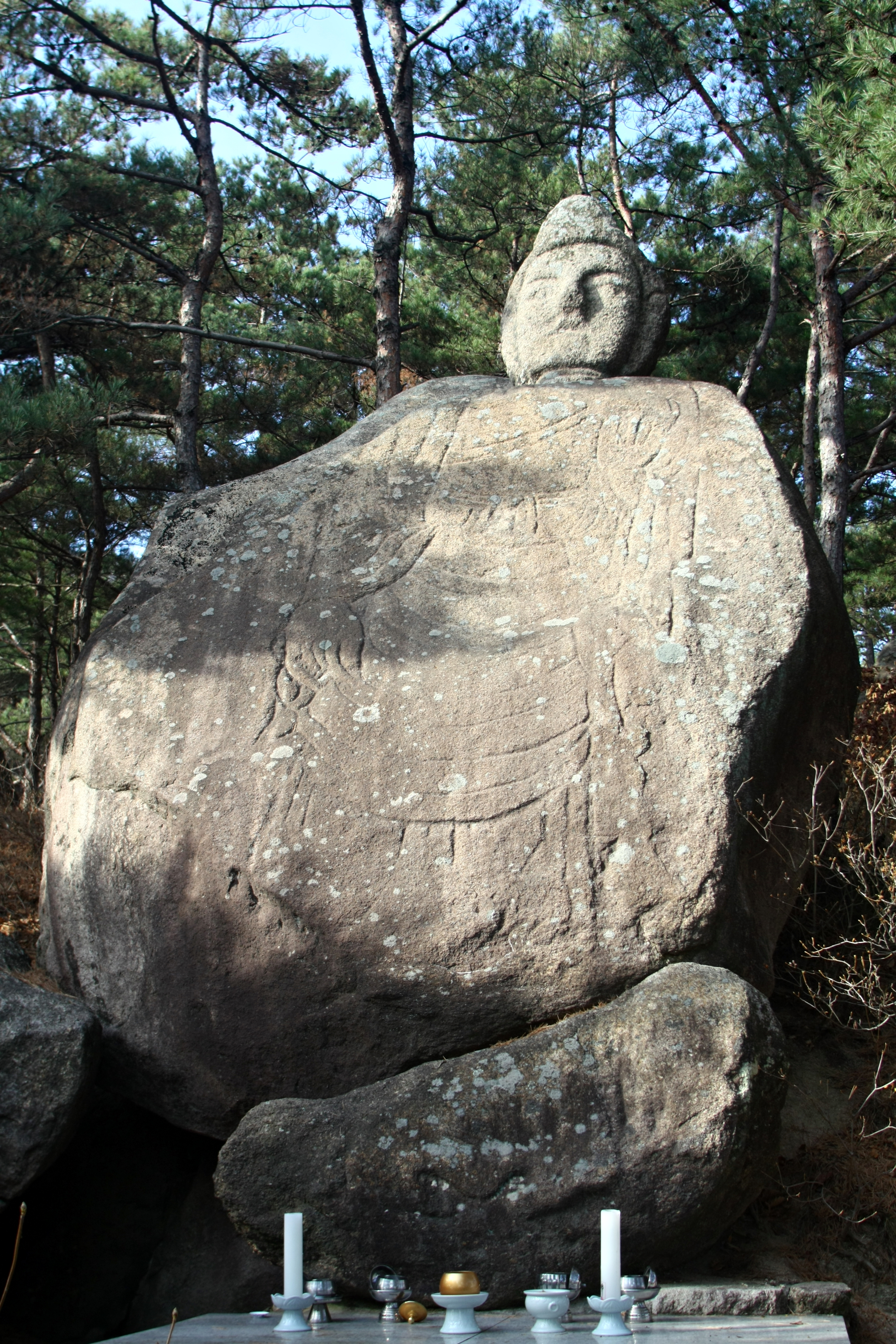 Rock-carved Standing Buddha at Dongsong-eup in Cheorwon, South Korea